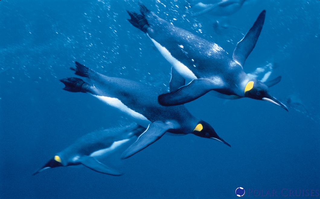 Penguins diving.